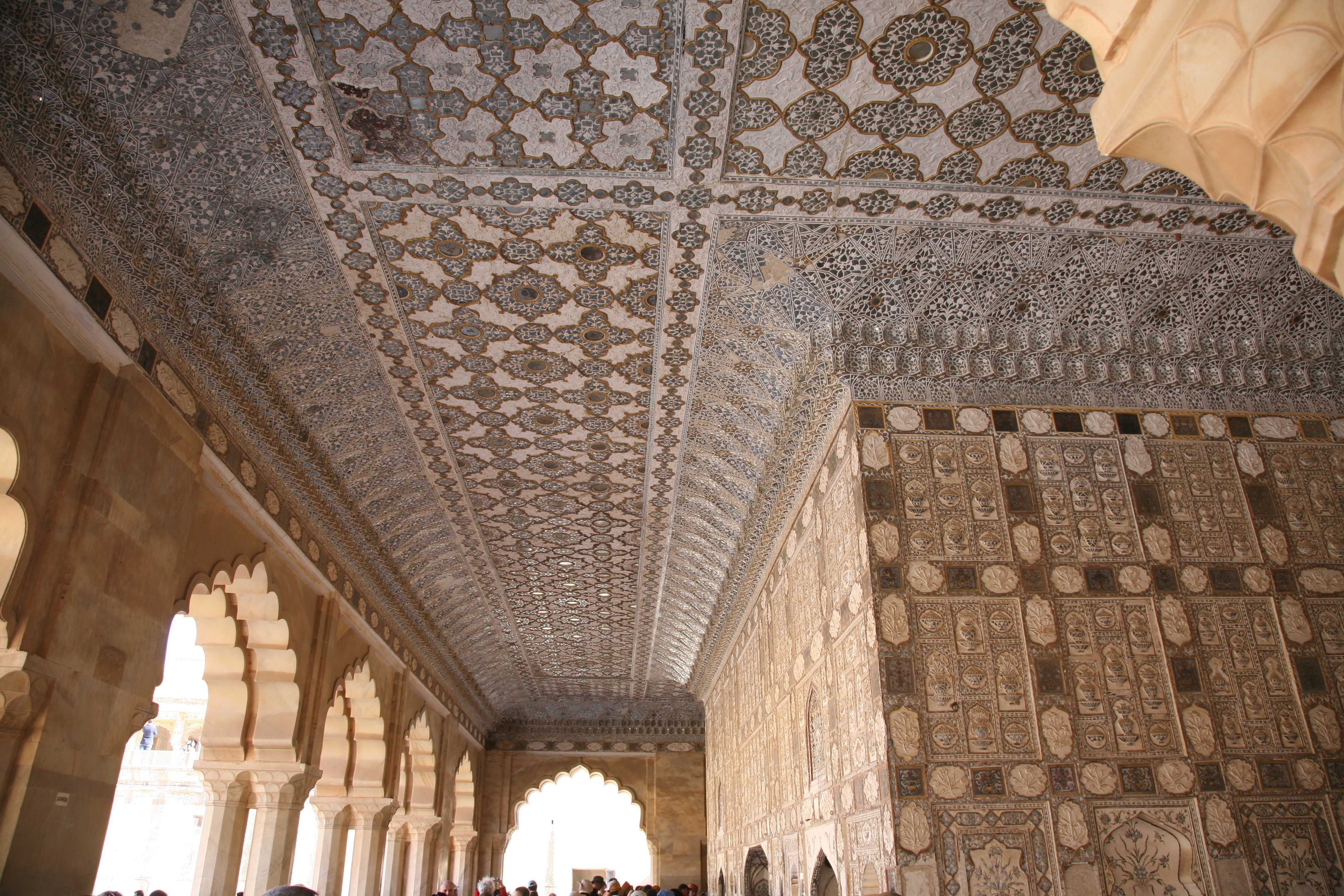 Amber Fort, near Jaipur. The marble palace Jai Mandir.